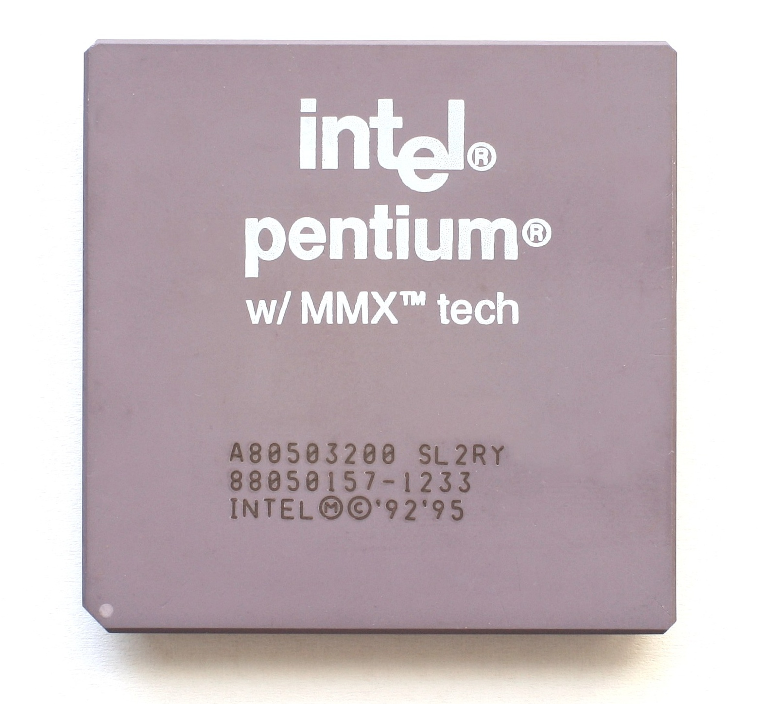 CPU Intel Pentium MMX 200 MHz CPGA.